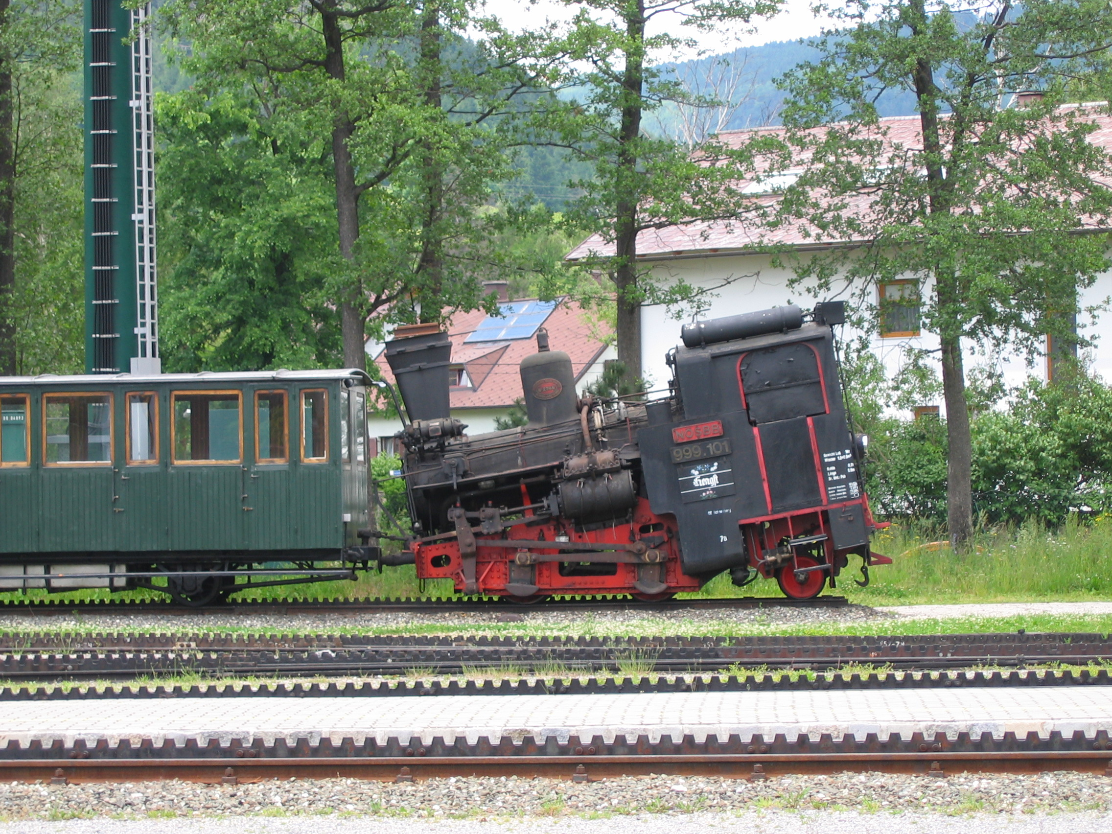 Picture taken by me User:Robbe of the cog railroad in Puchberg/Schneeberg, Austria.